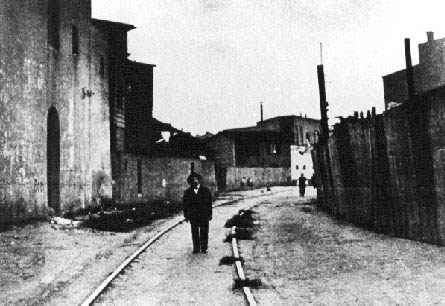 The Buenos Aires and Ensenada Port Railway's tracks in Caminito, La Boca district of Buenos Aires.